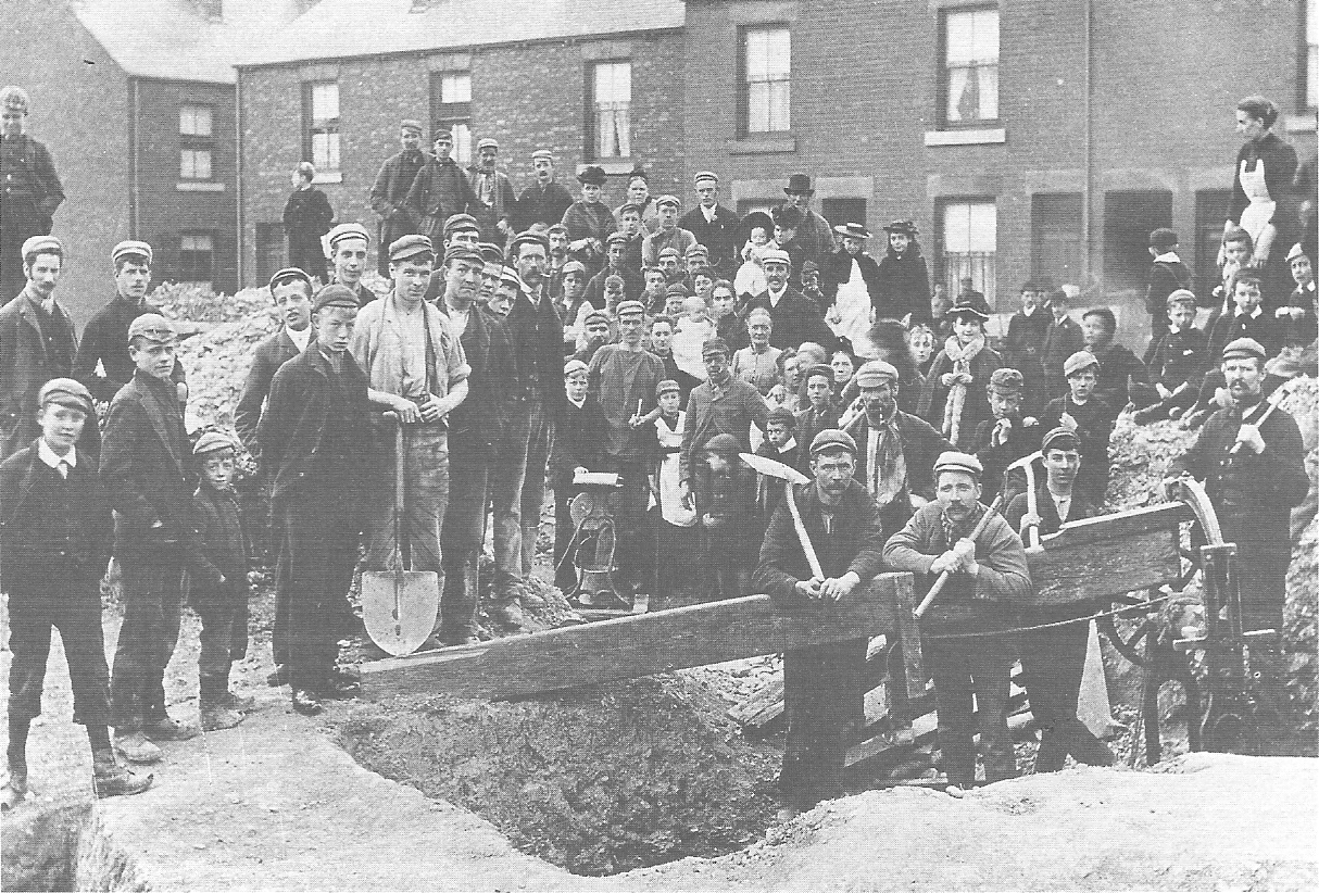 Striking miners independently work a seam of coal they have discovered on a building site off Handsworth Road in Darnall, Sheffield during the 1893 dispute.